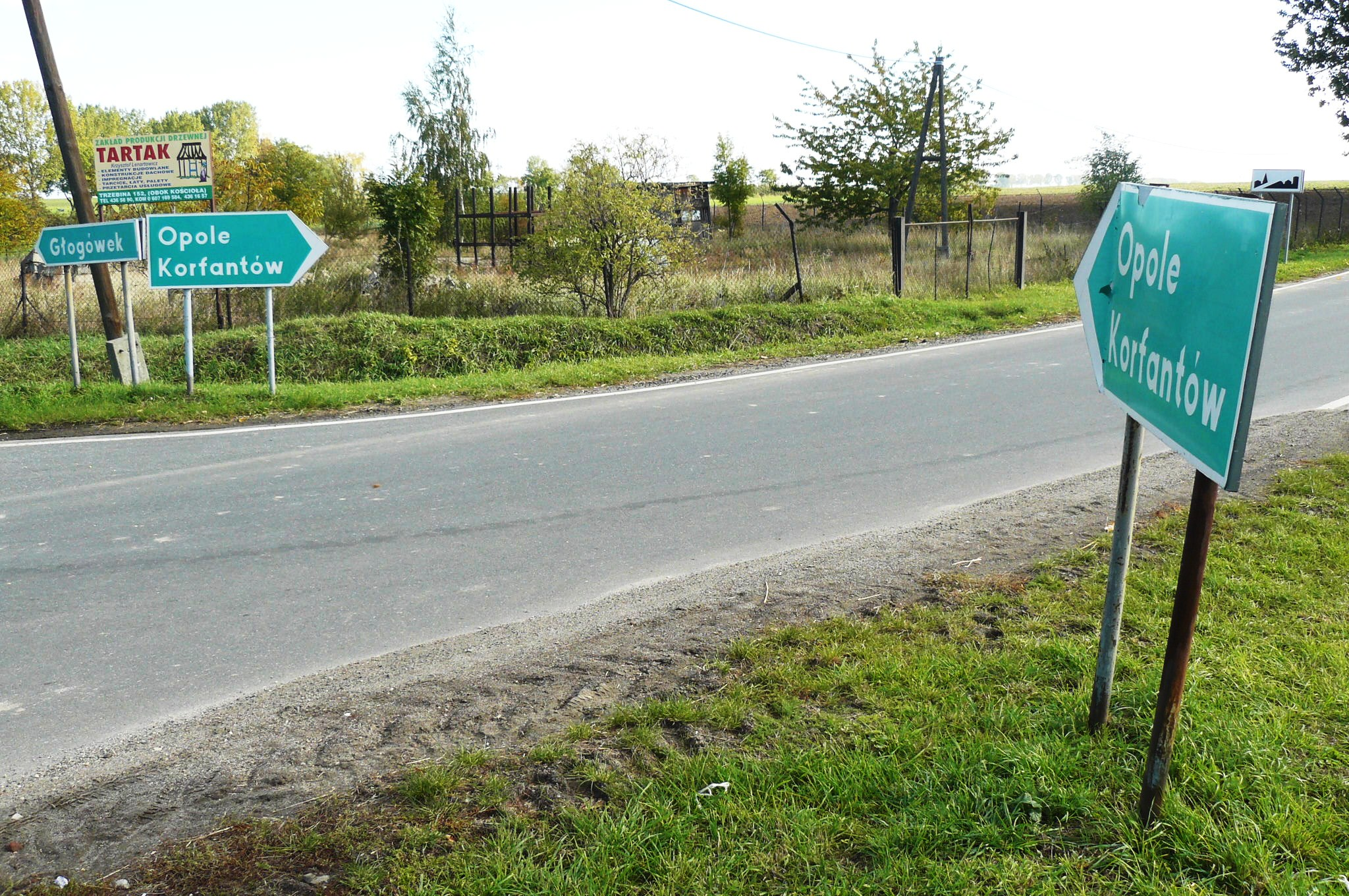 Flag type directional road sign in Biala, Poland.